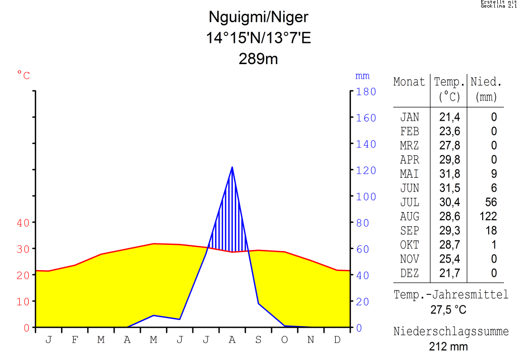 climate chart in the format by Walther and Lieth, metric, °Celsisus and millimeters, made with Geoklima 2.1 DateOctober 2006SourceSoftware: Geoklima 2.1 Website GeoklimaAuthorHedwig in WashingtonPermission (Reusing this file) Own work, attribution required (Multi-license with GFDL and Creative Commons CC-BY 2.5)